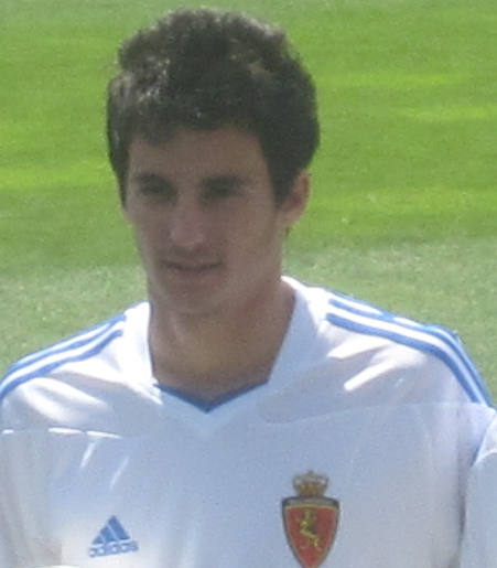 Juan Carlos in 2011, being presented at Real Zaragoza. Cropped from a Commons file.